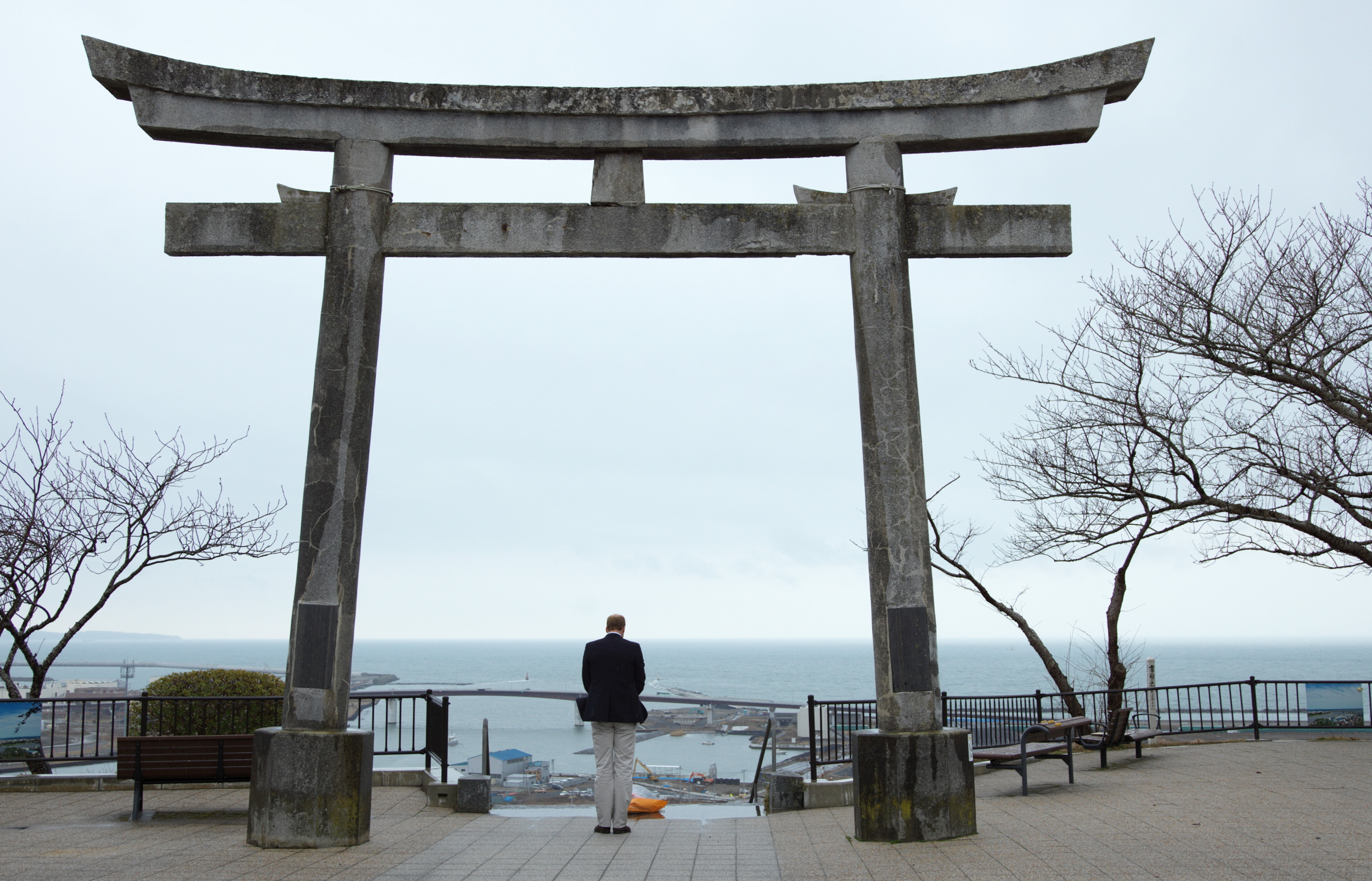 Prince William lay flowers for the victims of the Tōhoku earthquake and tsunami at the Kashimamiko Jinja in Ishinomaki City, Miyagi Prefecture on March 1, 2015.